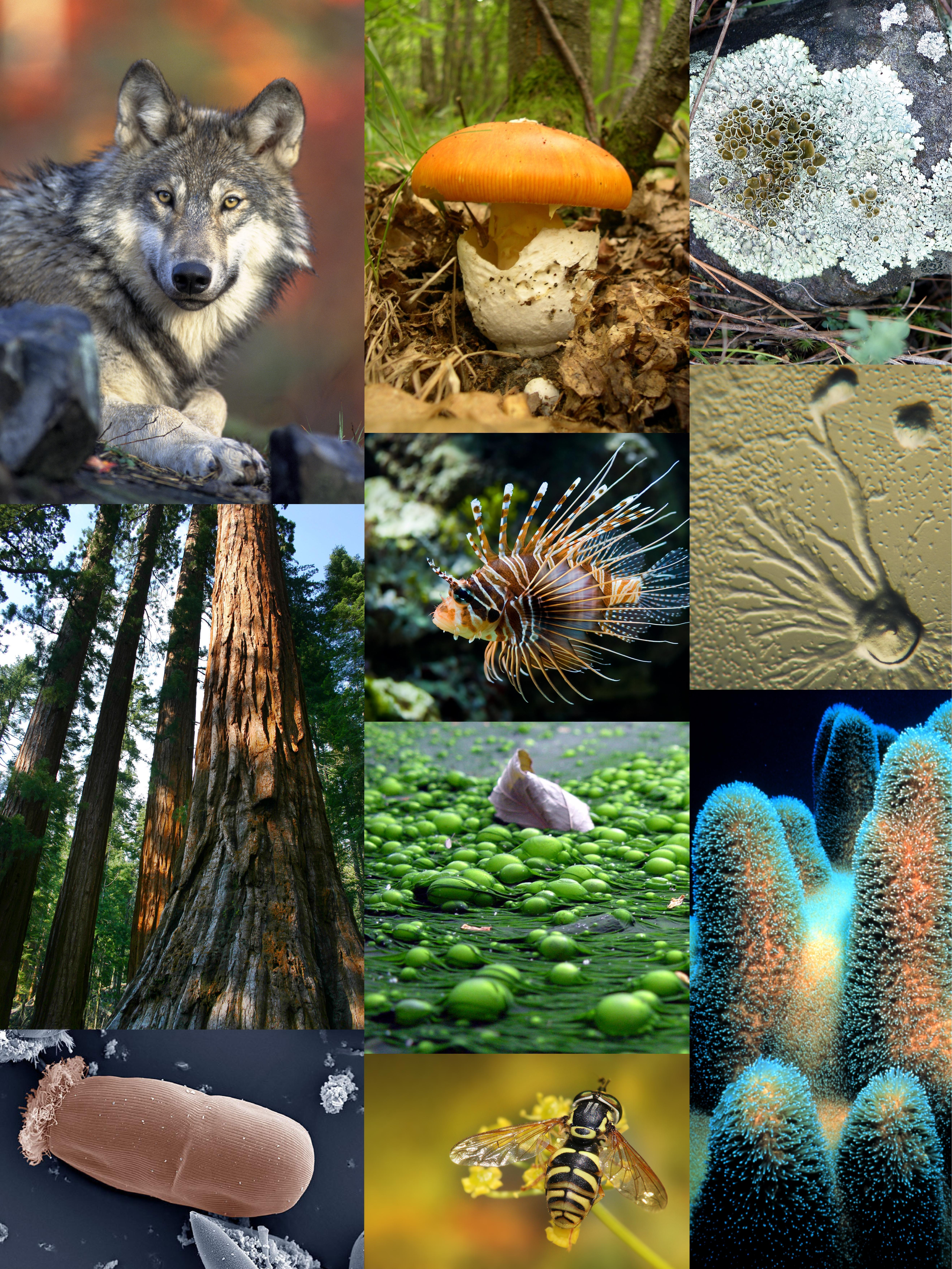 Eukaryotes and some examples of their diversity; compilation